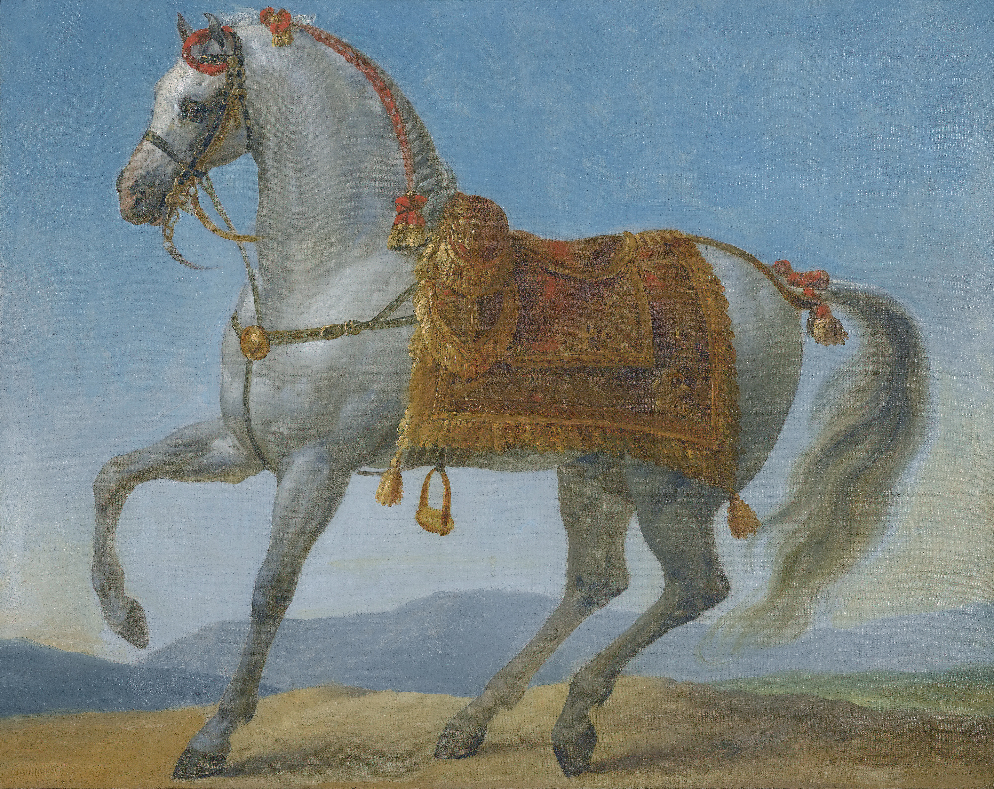 Napoleon Bonaparte's Arab Stallion, "Marengo"